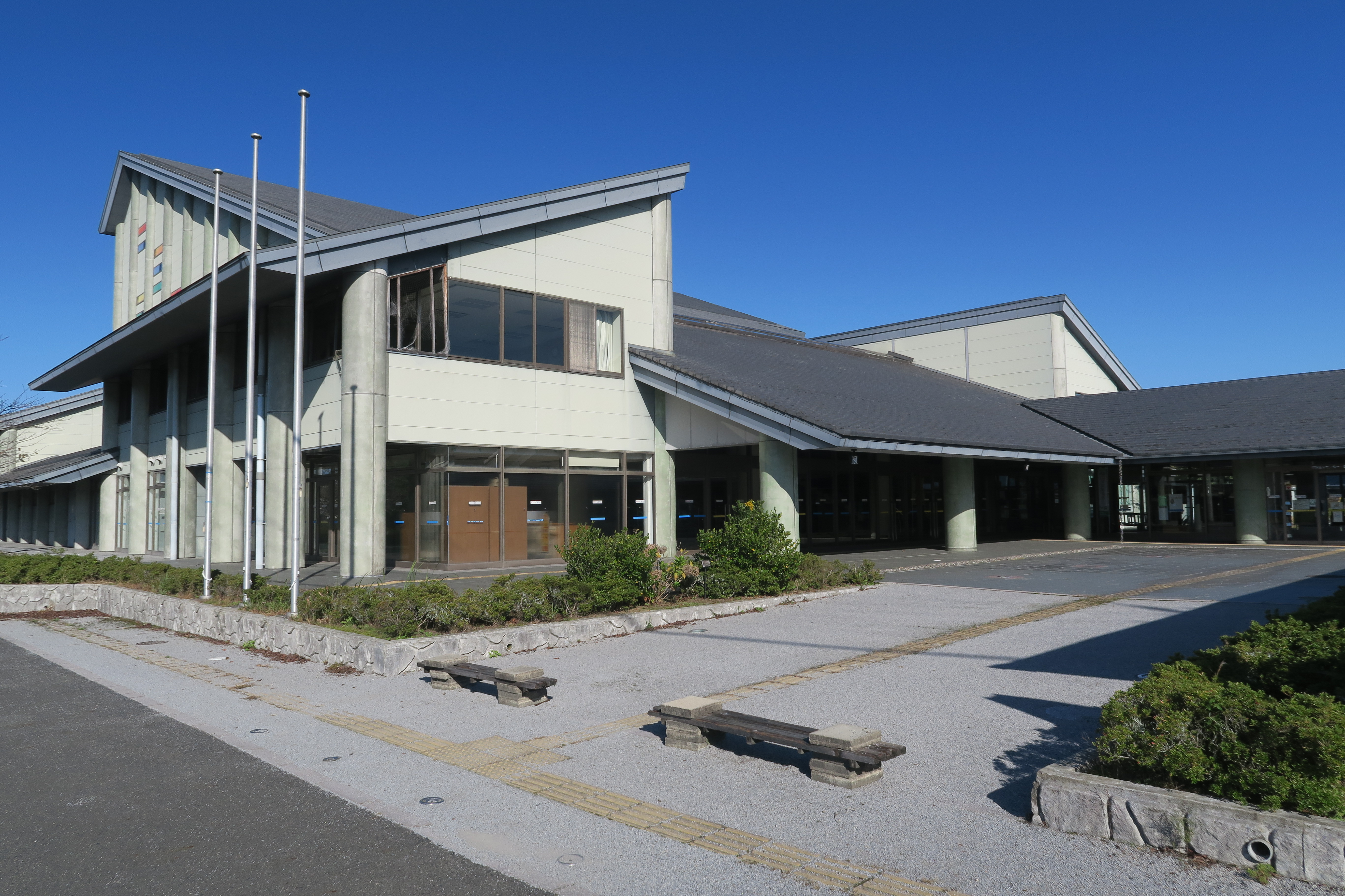 Konan Jōhō center - Shinobi no Sato Plala, Koka, Shiga, Japan